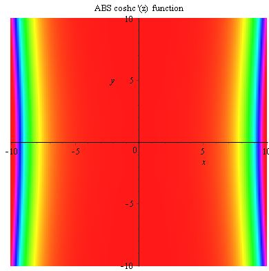 Coshc'(x) abs density plot